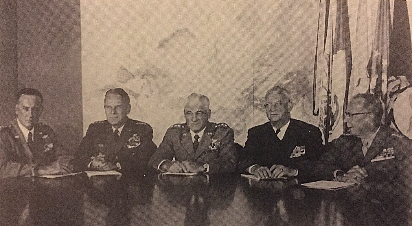 The Joint Chiefs of Staff member at The Pentagon in September 17, 1957 From left to right are: U.S. Air Force Chief of Staff Gen. Thomas D. White, U.S. Army Chief of Staff Gen. Maxwell D. Taylor, , Chairman of the Joint Chiefs of Staff Gen. Nathan F. Twining, U.S. Navy Chief of Naval Operations Adm. Arleigh A. Burke, U.S. Marine Corps Commandant Gen. Randolph M. Pate.